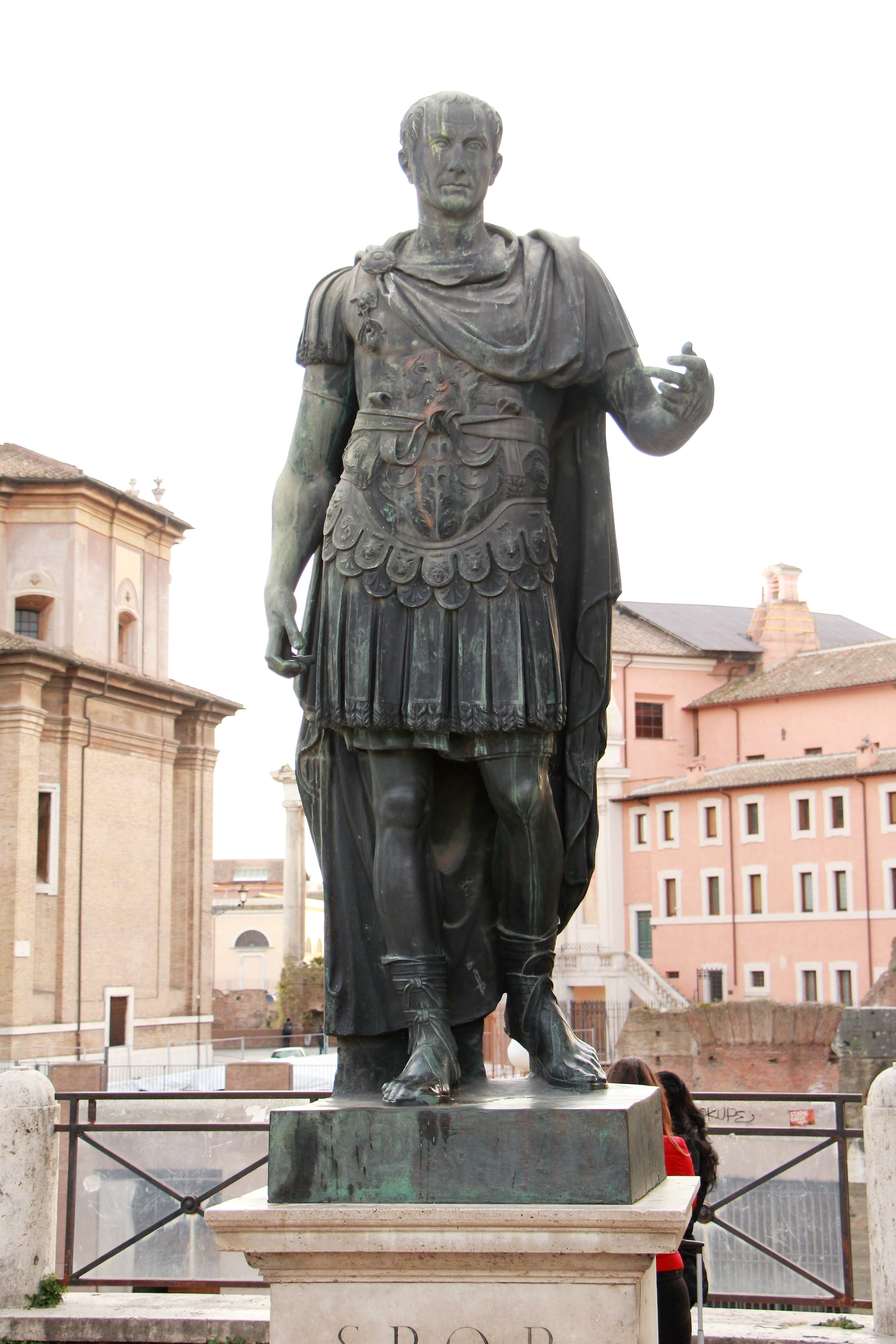 Statue of Julius Caesar, Via dei Fori Imperiali (Rome)